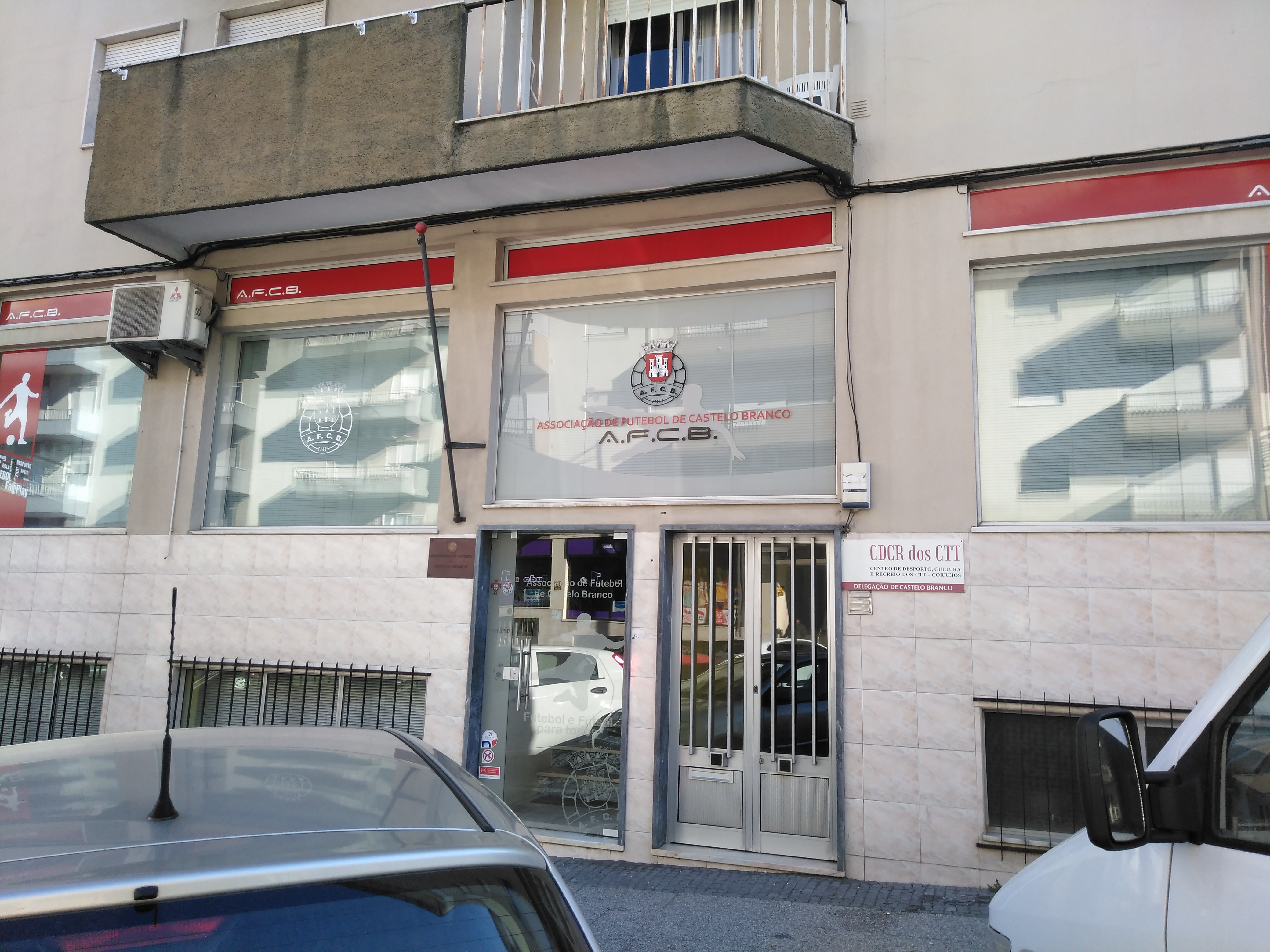 Castelo Branco Football Association